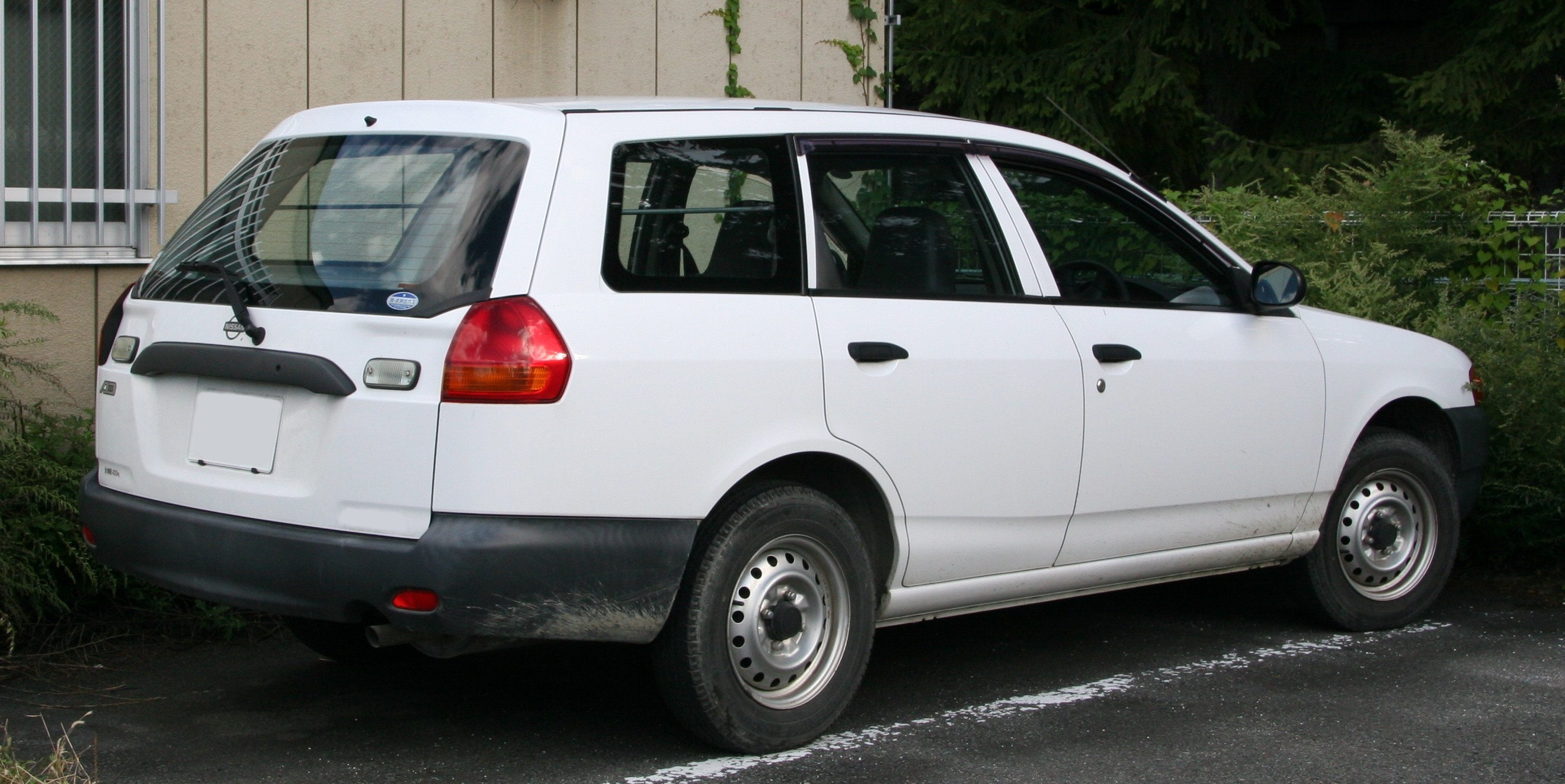 NISSAN AD VAN